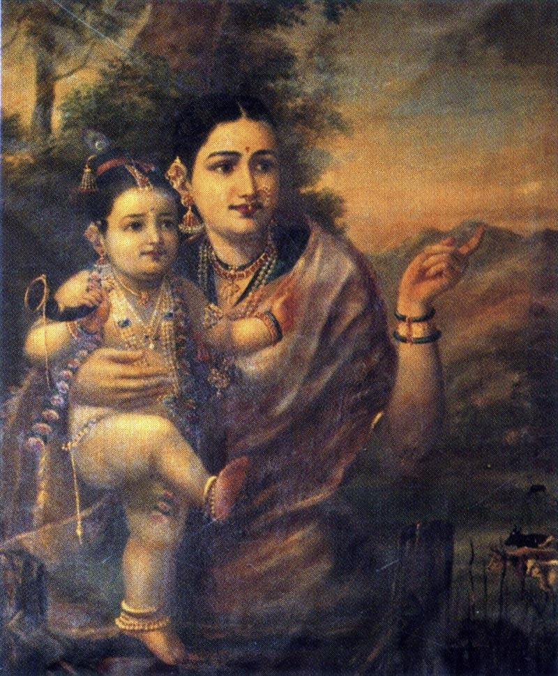 Sri Krishna, as a young child with foster mother Yasoda.